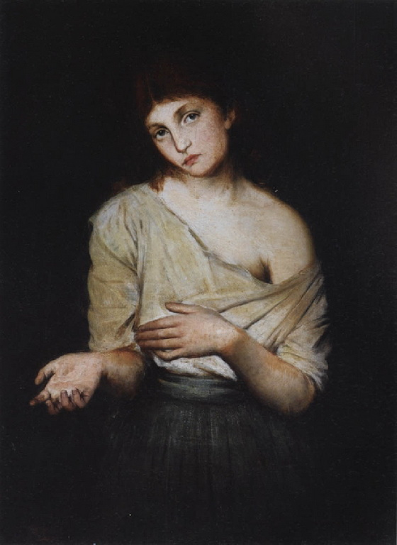 Charity